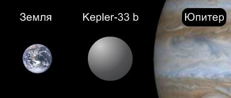 Comparative sizes of Earth, Kepler-33 b and Jupiter.